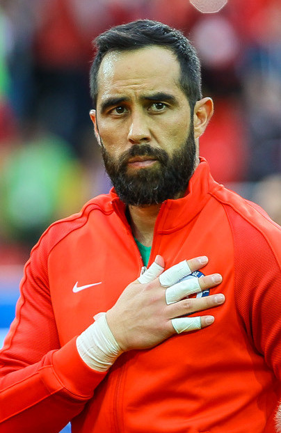 Chile VS. Australia 1 - 1, 25 June 2017